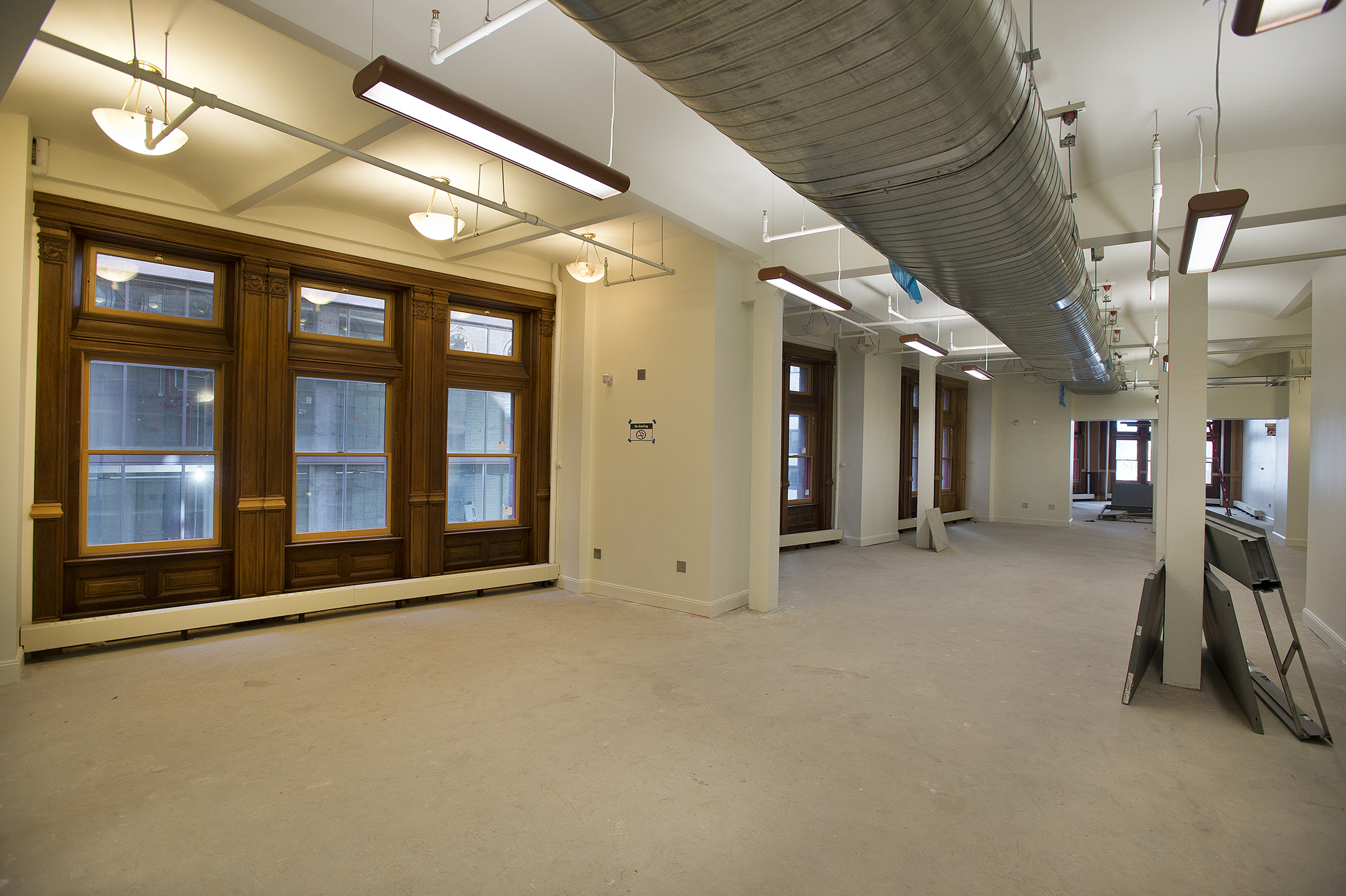 MTA Capital Construction is building the Fulton Center, which will serve as an essential transportation and retail hub in Lower Manhattan, providing a seamless transfer for passengers connecting to the A, C, J, Z, 2, 3, 4 and 5 subway lines and connections to the E, R and 1 lines. This photo shows an update on the status of construction as of March 5, 2013. The project includes a meticulous restoration of the historic Corbin Building, at the northeast corner of John Street and Broadway. Photo: Metropolitan Transportation Authority / Patrick Cashin.